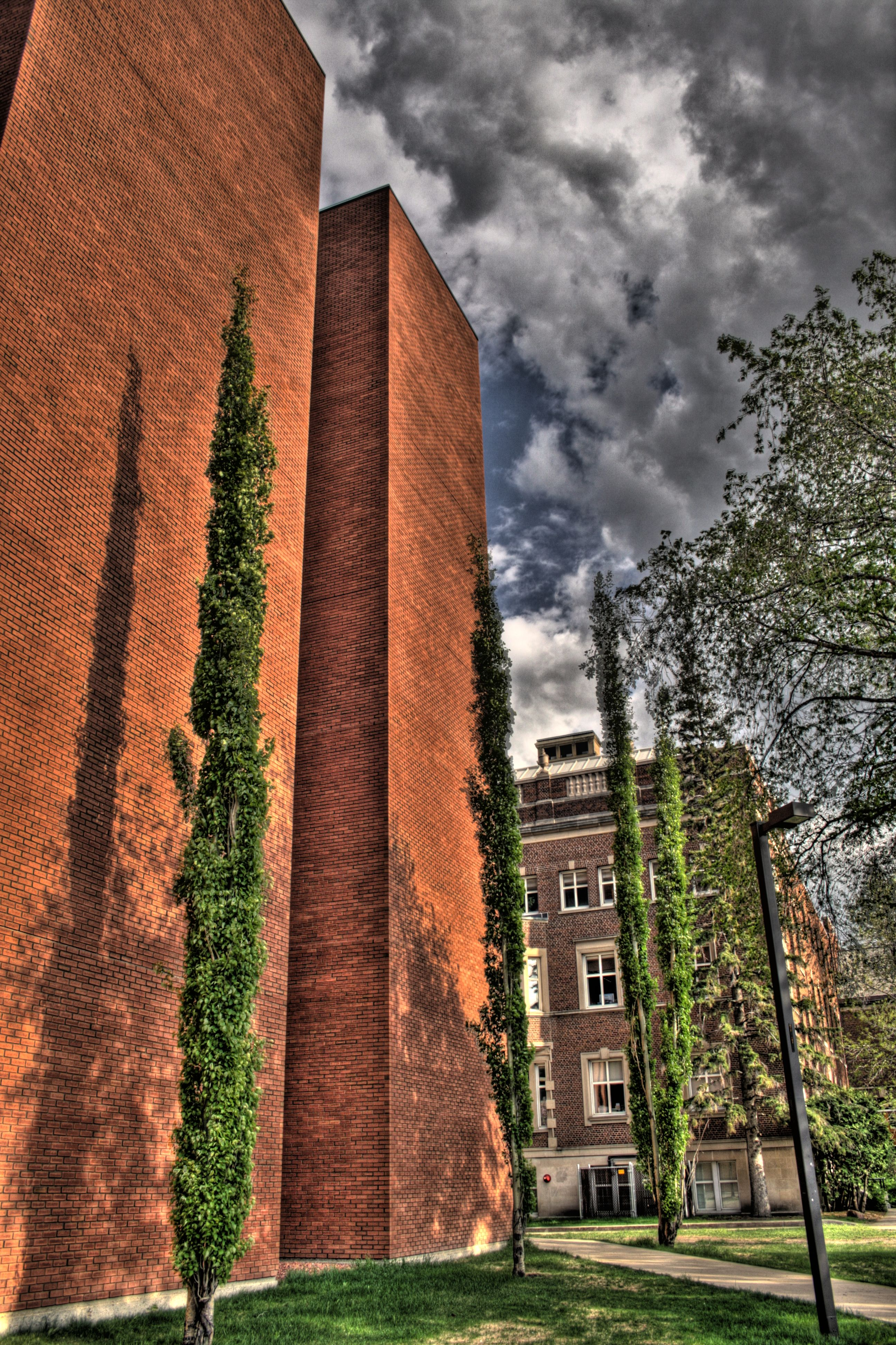 West face of the Business Building, on the campus of the University of Alberta, Edmonton, Alberta, Canada.